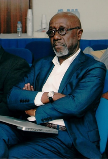 Imagine Africa: Founder and President United Nations Global Compact: Member of the board and Chair of the Human Rights Working Group United Nations University: Member of the Advisory Committee of UNU CRIS West Africa Institute: Founder and Member of the Board (Praia, Cape Verde) Daimler-(Mercedes-Benz) Member of the Adviser Board on Integrity and Corporate Responsabilty